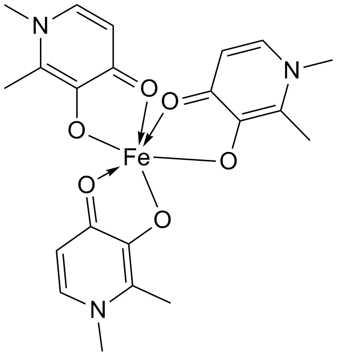 Skeletal structure of deferiprone-iron complex